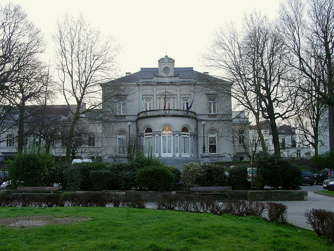 Ixelles town hall. Photograph taken by myself on 27th March 2007.